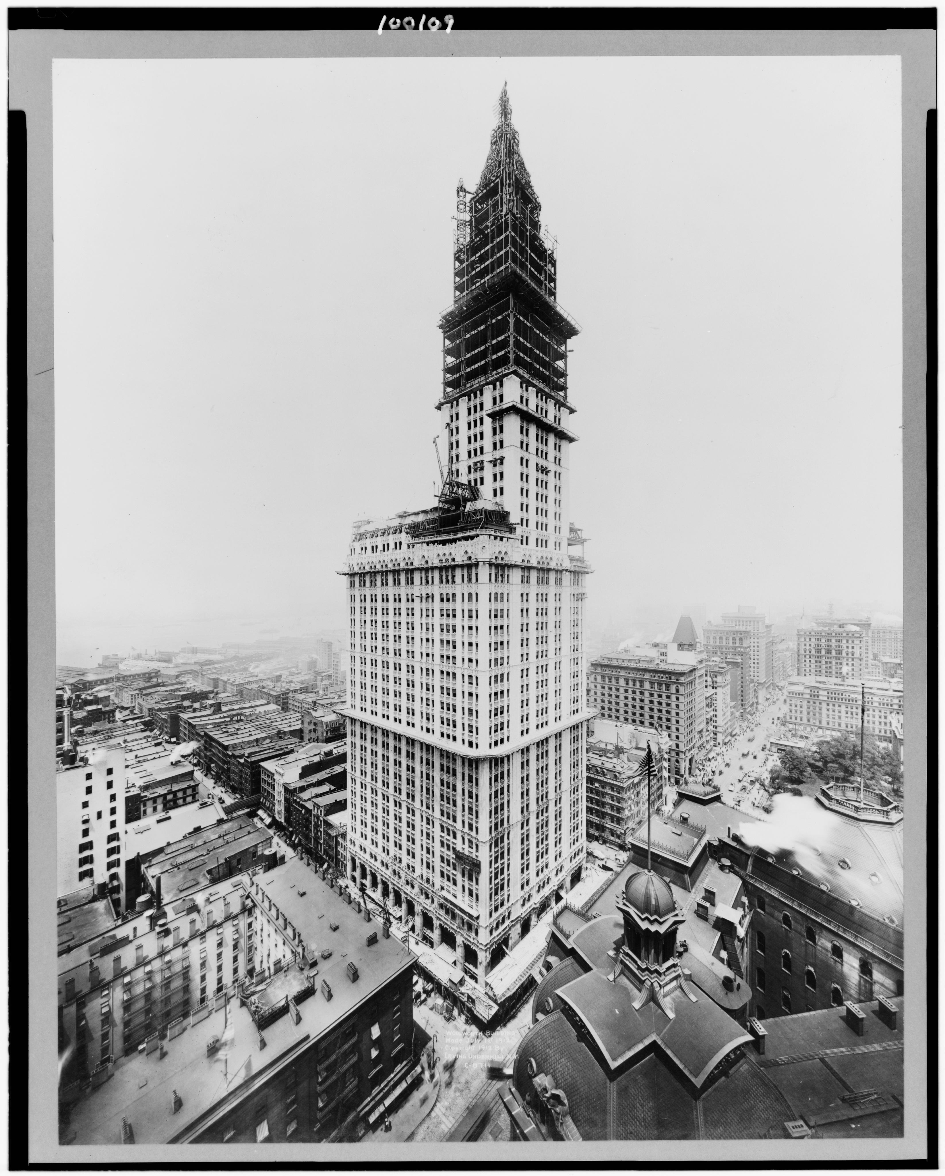 The Woolworth Building on July 1, 1912, nearing completion.